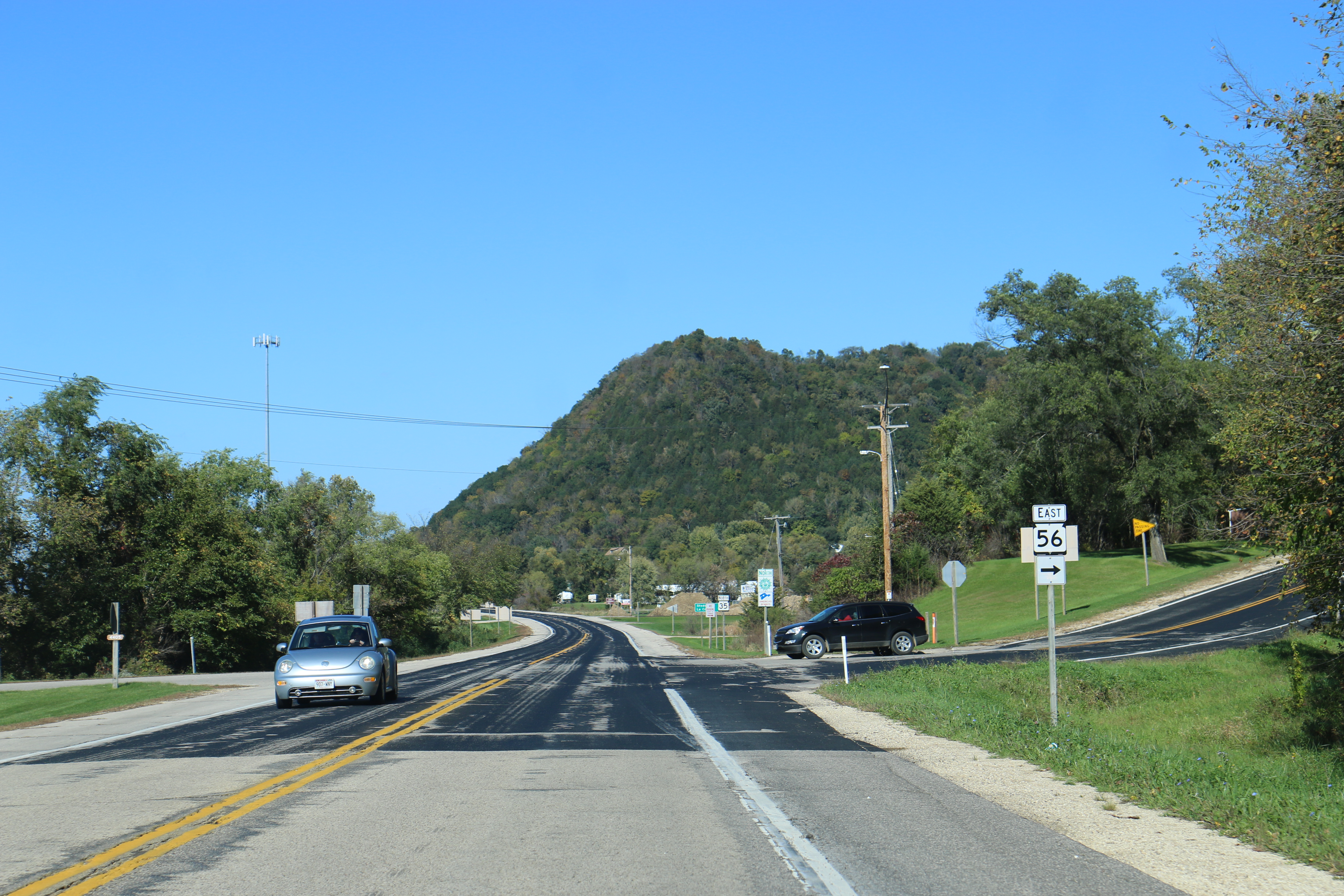 The western terminus of Wisconsin Highway 56 from WIS35.